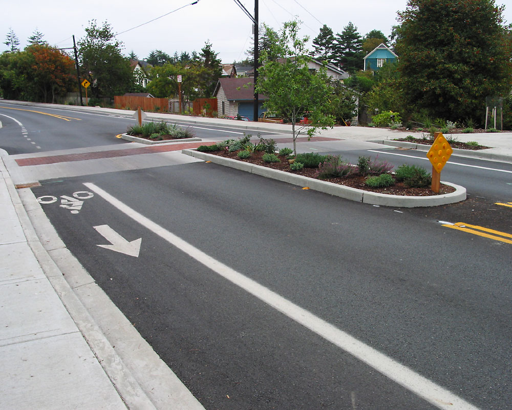 Midblock median island (Located in Port Townsend, WA)